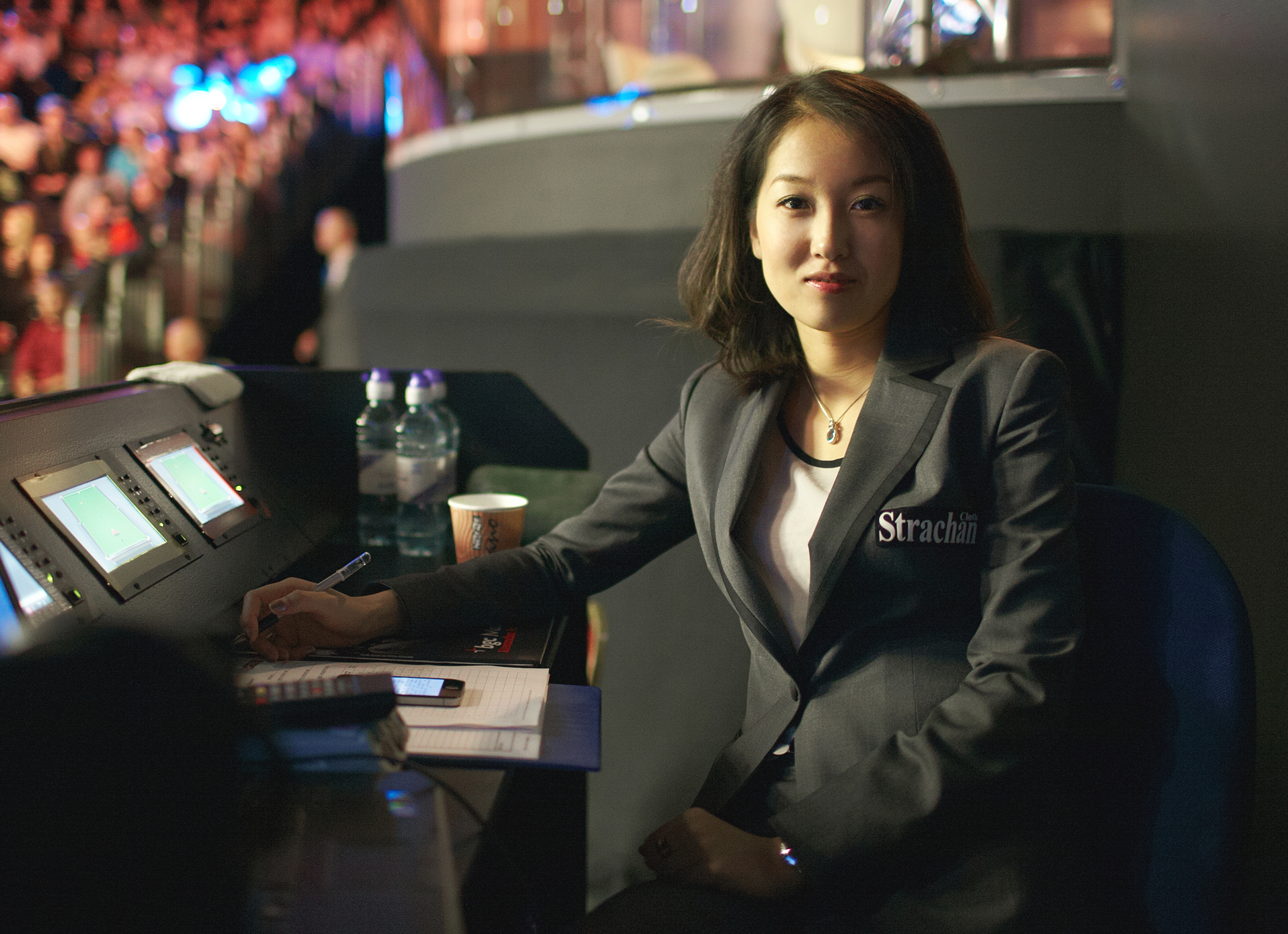 Zhu Ying during 2012 Masters in London